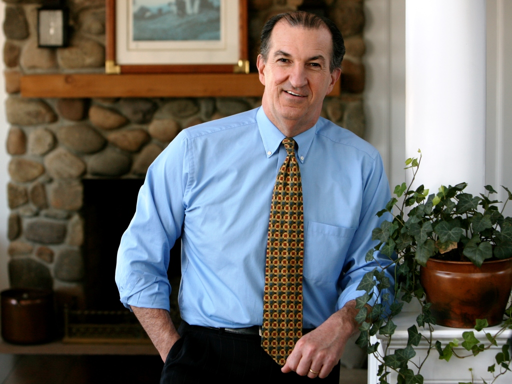 Joe Malone, Candidate for US Congress in the Massachusetts 10th Congressional District